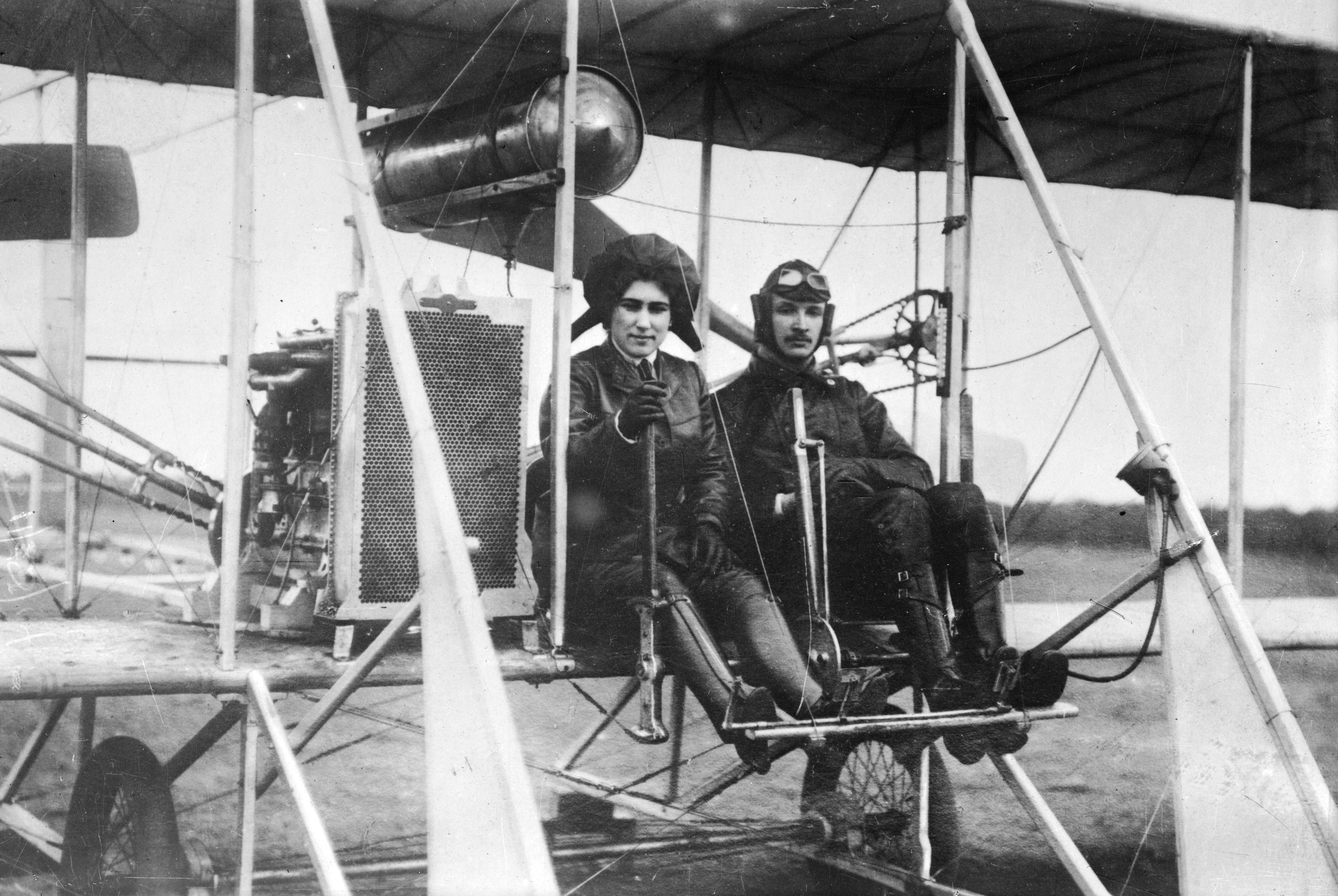 Bain News Service,, publisher. Russian Princess Eugenia Mikhailovna Shakhovskaya and aviator Abramowitsch. [no date recorded on caption card] 1 negative : glass ; 5 x 7 in. or smaller. Notes: Title from unverified data provided by the Bain News Service on the negatives or caption cards. Forms part of: George Grantham Bain Collection (Library of Congress). Format: Glass negatives. Repository: Library of Congress, Prints and Photographs Division, Washington, D.C. 20540 USA, General information about the Bain Collection is available at Persistent URL: Call Number: LC-B2- 2712-6